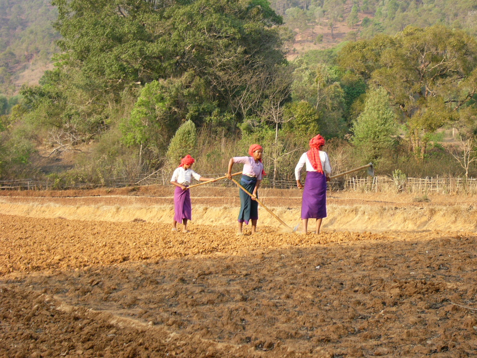 Burmese women working on the fields in Shan State, Myanmar. Photo was taken in February 2005, dry season.